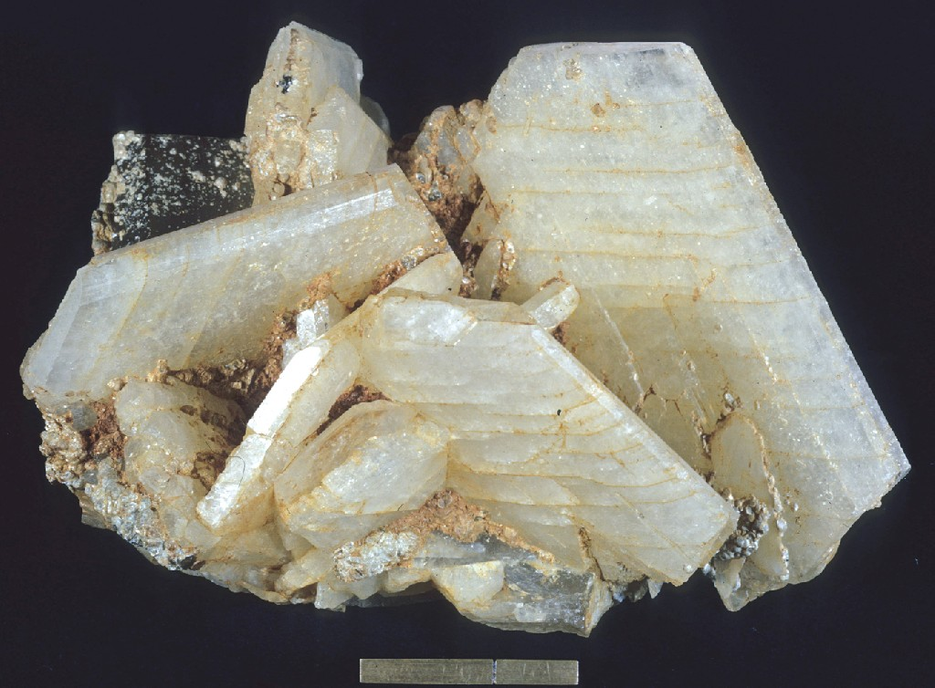 Albite - Locality: Minas Gerais, Southeast Region, Brazil - Scale at bottom of image is one inch with a rule at one cm.